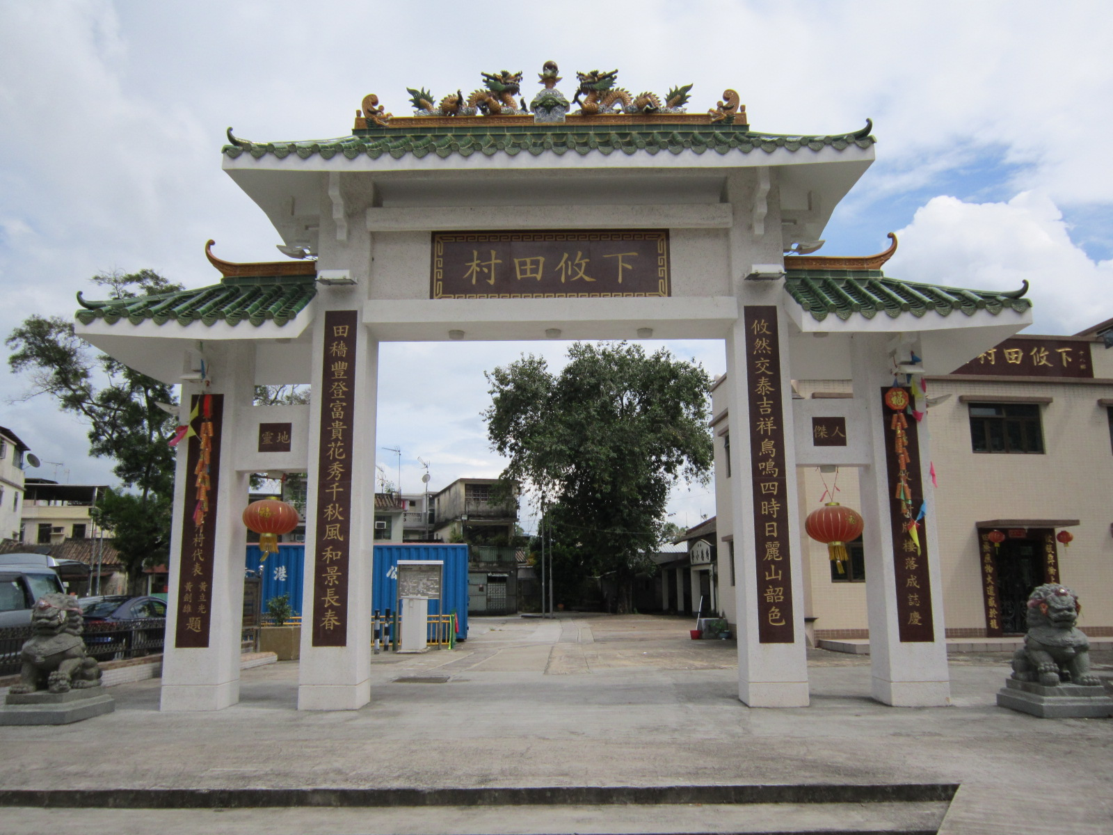 Entrance of Ha Yau Tin Tsuen, Shap Pat Heung, Yuen Long